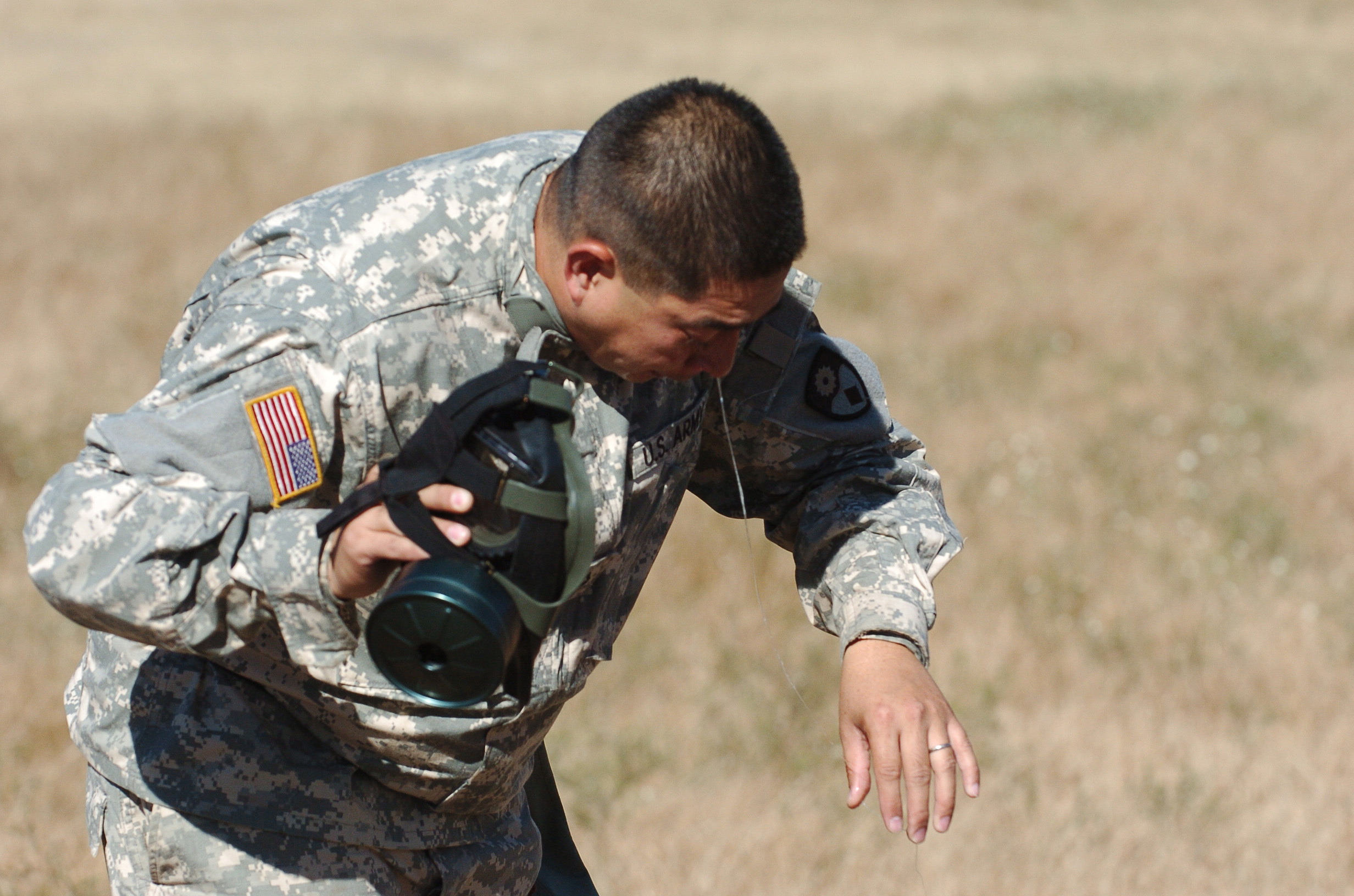 The nose of a member of the 270th Military Police Company drips after exiting a gas chamber July 18 during law enforcement training at Camp San Luis Obispo, Calif. The 270th is a subordinate of the 185th Military Police Battalion, 49th Military Police Brigade, California Army National Guard.